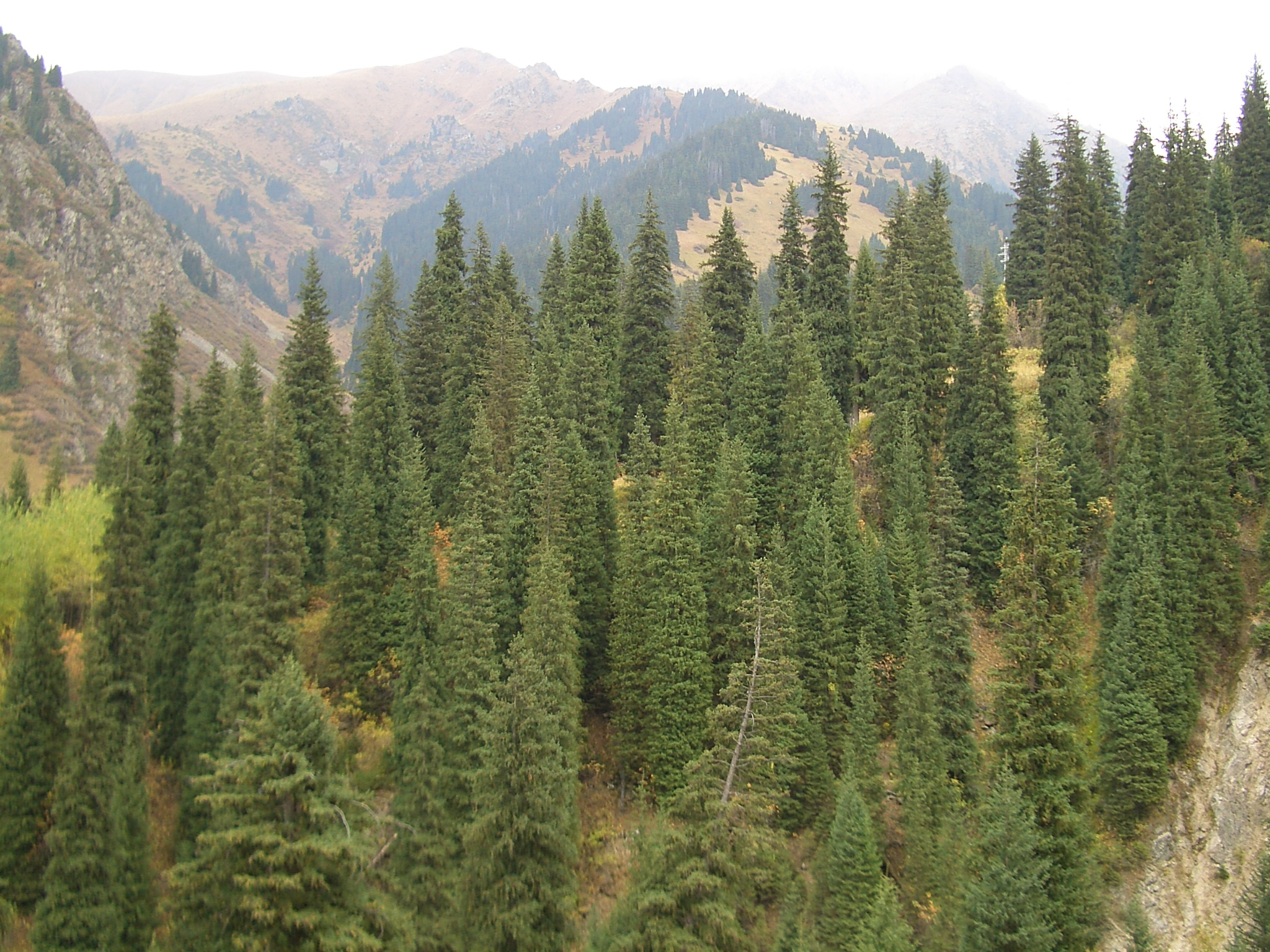 In the Shymbulak (Chimbulak) Valley, south of the Medeo Dam.